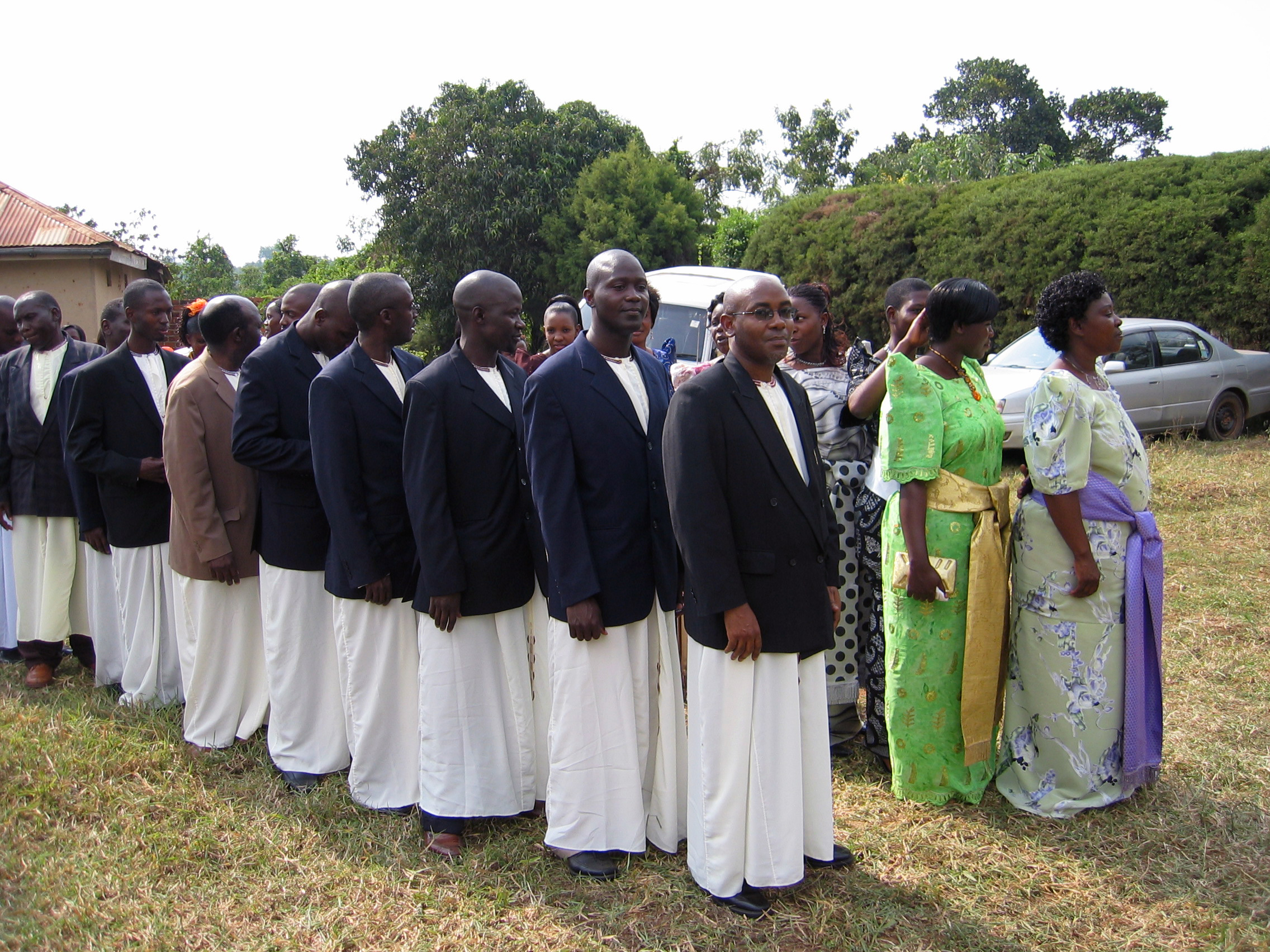 Members of the groom's clan line up in their kanzus at a wedding in Kampala, Uganda.